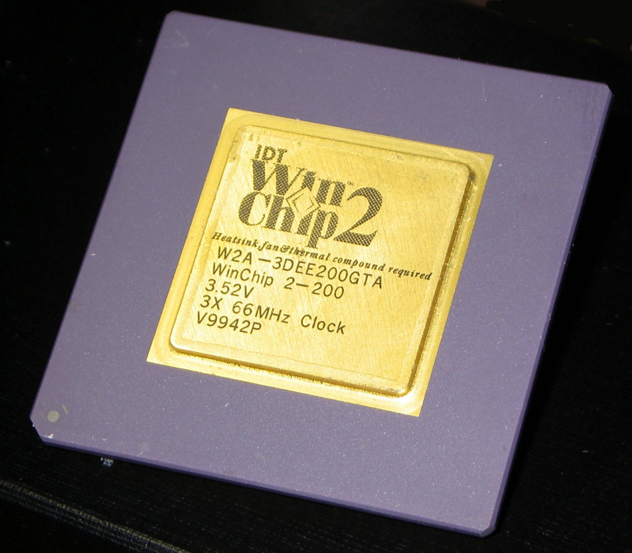 IDT WinChip 2 rev.A 200MHz